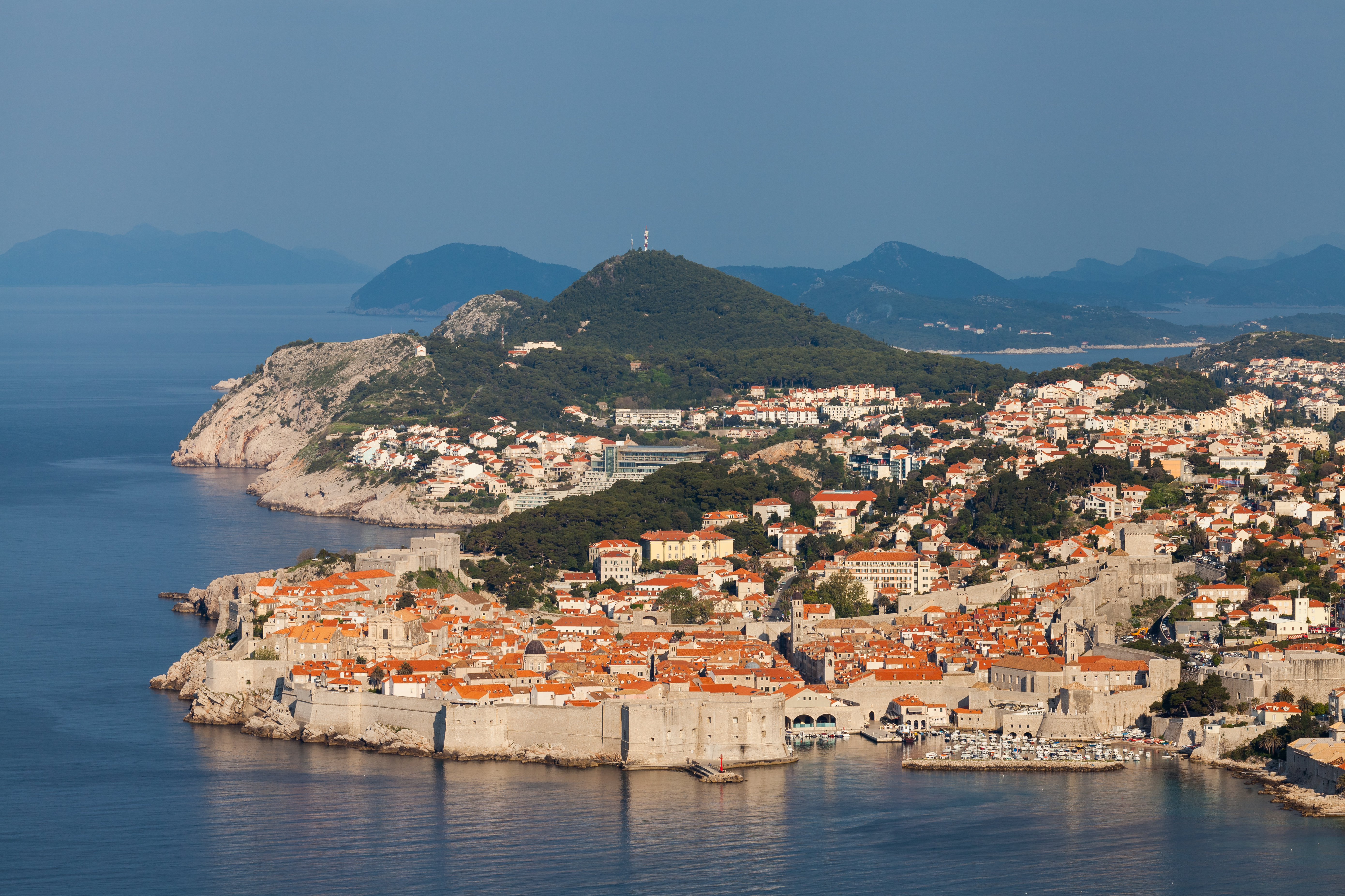 Panoramic view of the old city of Dubrovnik, Croatia